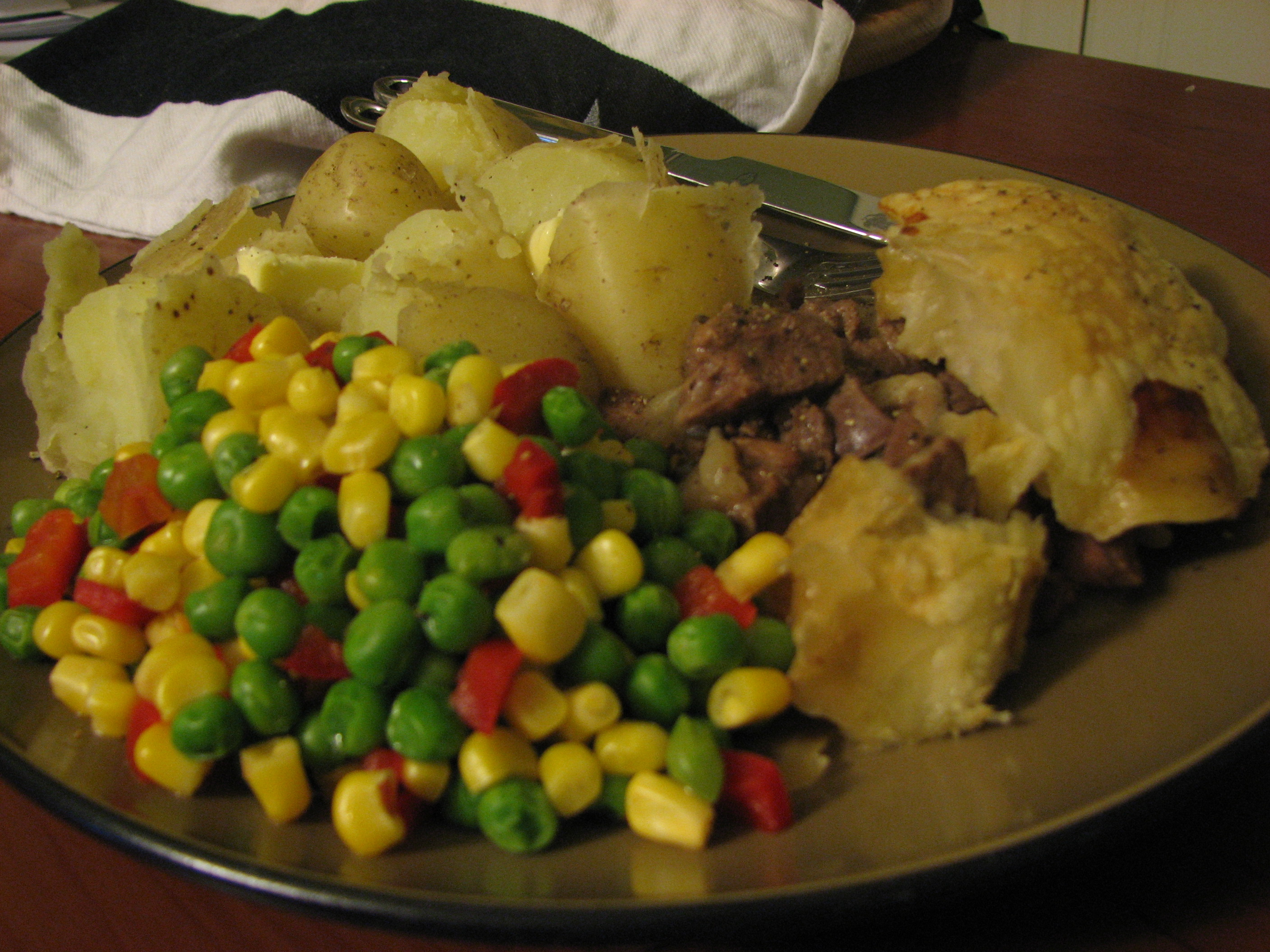 A meal consisting of a helping of steak and kidney pie, boiled potatoes with butter and pre-prepared frozen vegetables.